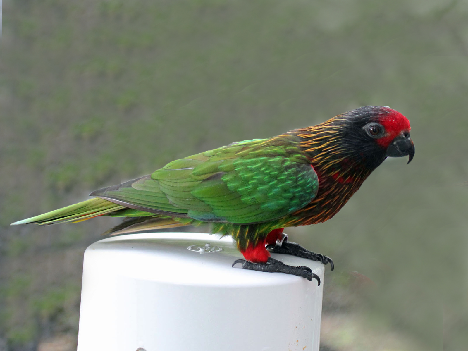 Yellow-streaked Lory (Chalcopsitta sintillata) at Butterfly World in Florida